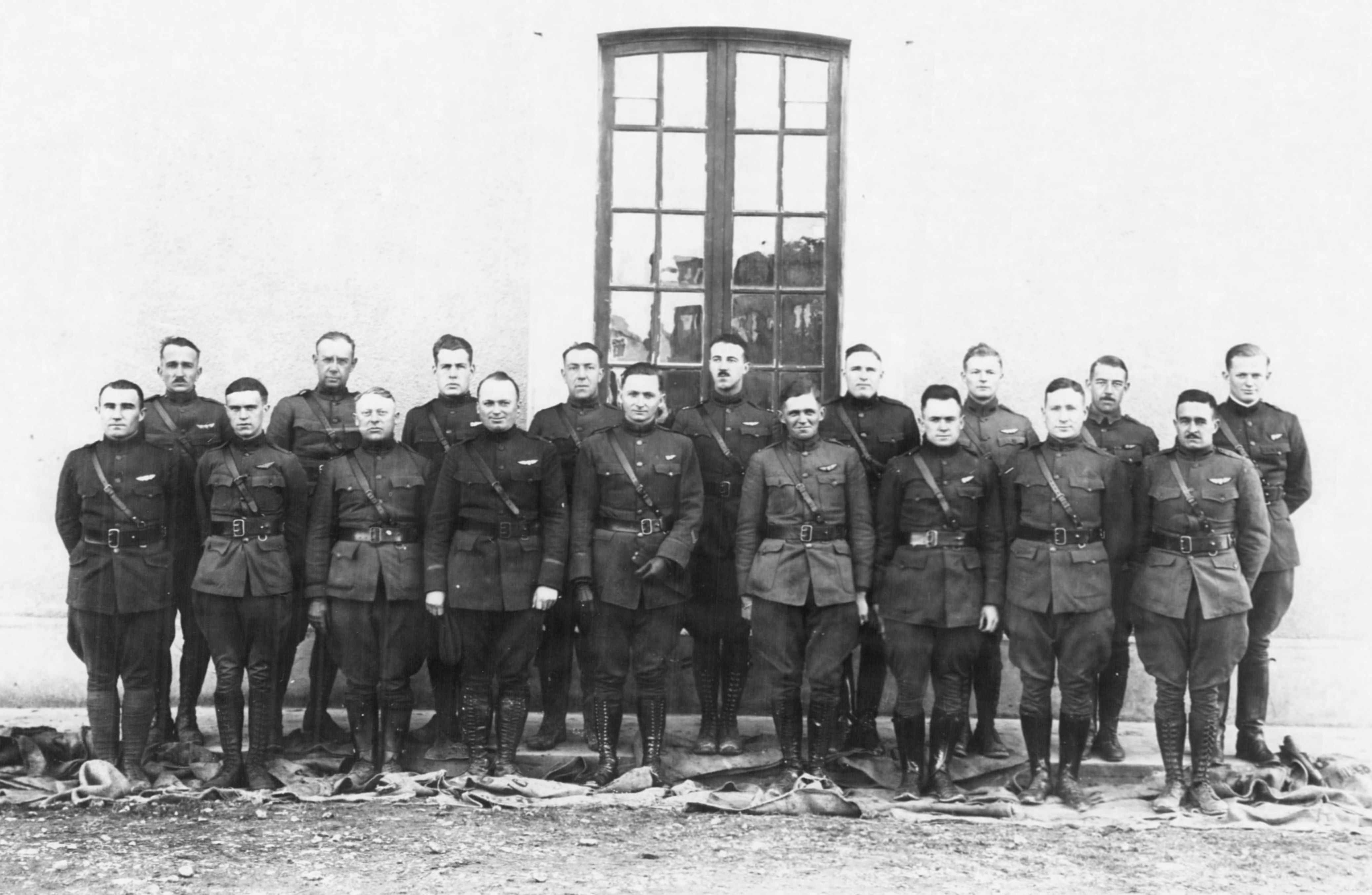 Pilots of the 278th Aero Squadron, Gengault Aerodrome, Toul, France